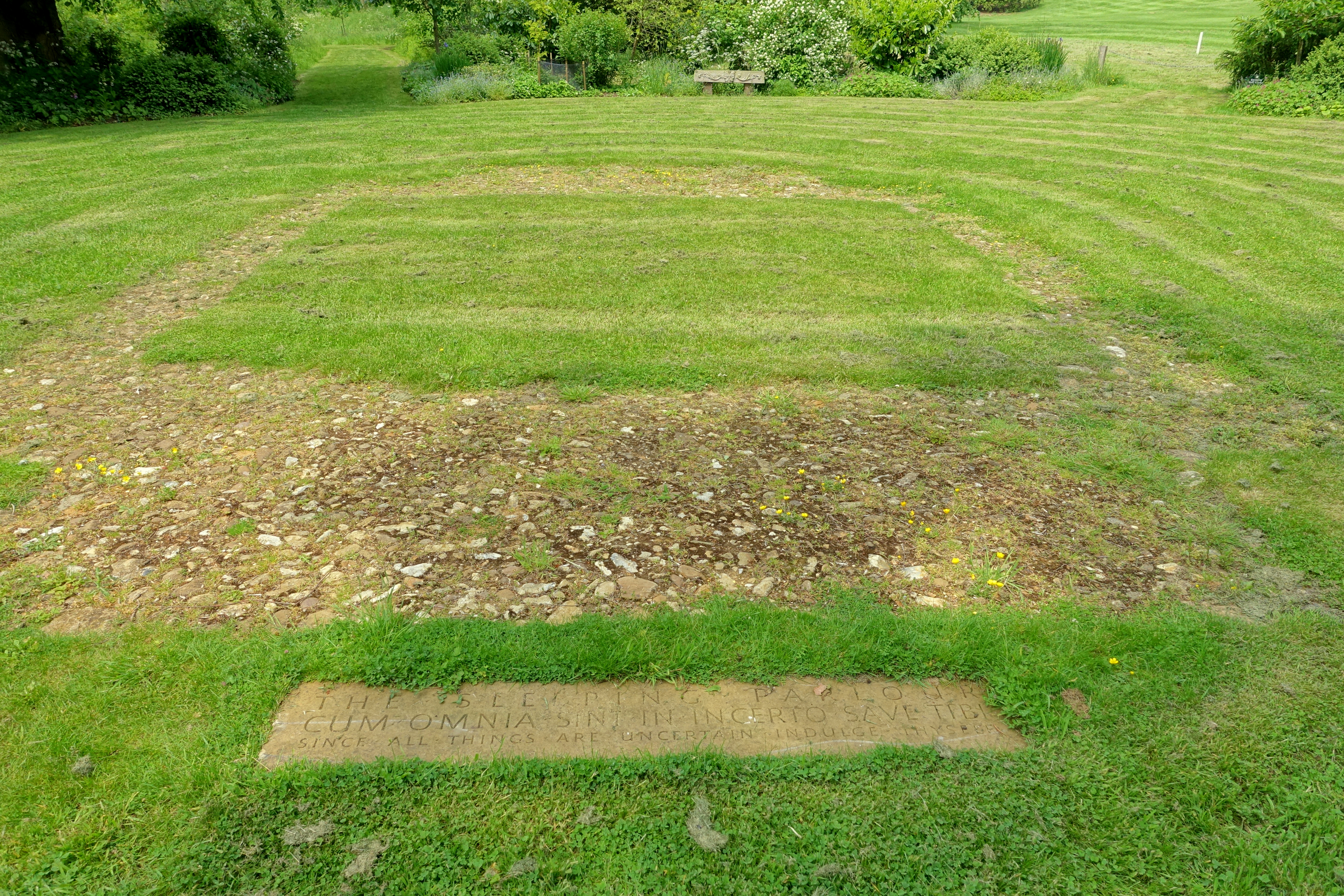 Site of the Sleeping Parlour in Stowe Gardens - Buckinghamshire, England. Its former inscription: Cum omnia sint in incerto, save tibi (Since all things are uncertain, indulge thyself).